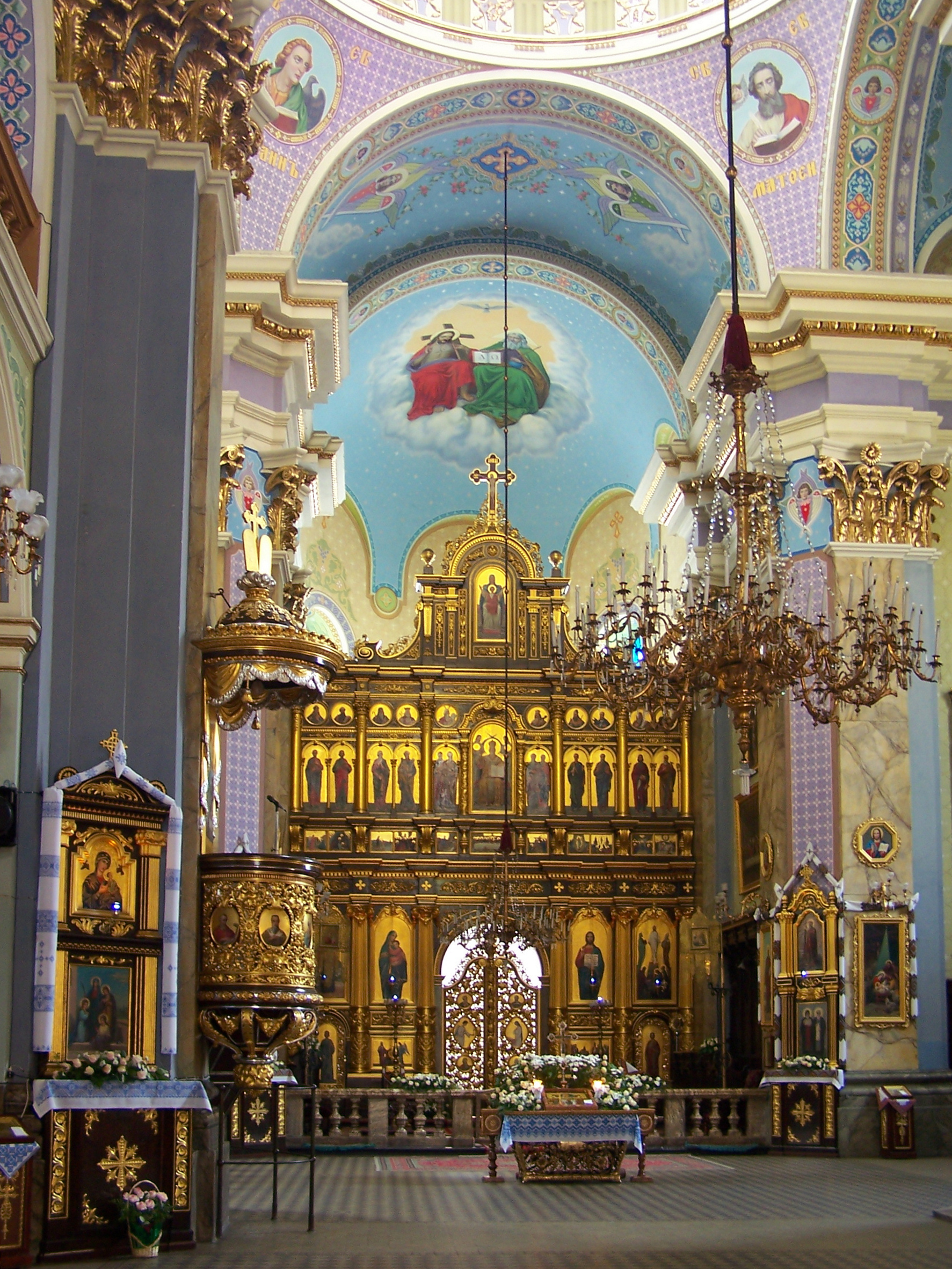 Church of Transfiguration in Lviv (Ukraine).